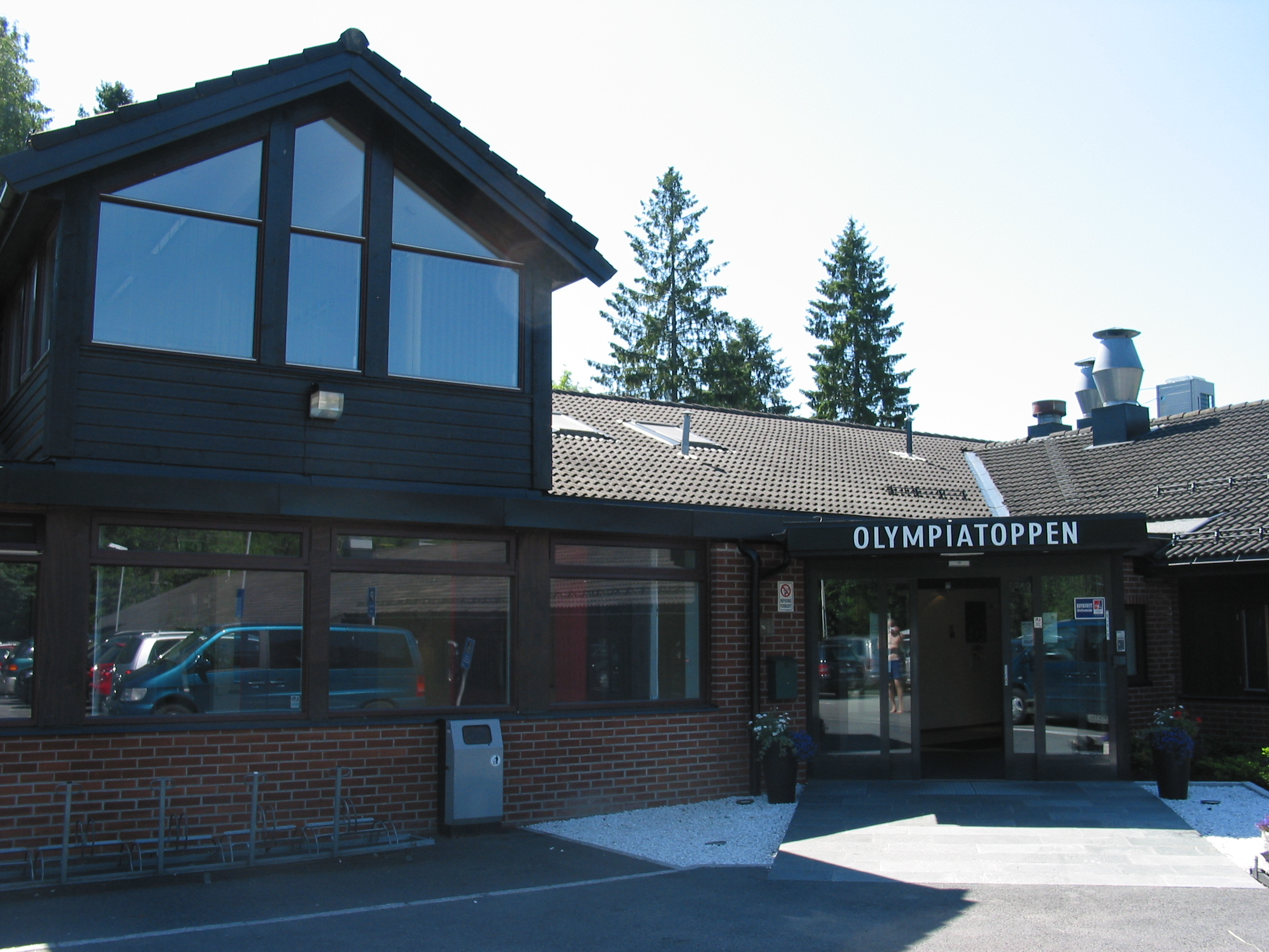 Headquarters of Olympiatoppen near Sognsvann, Norway.